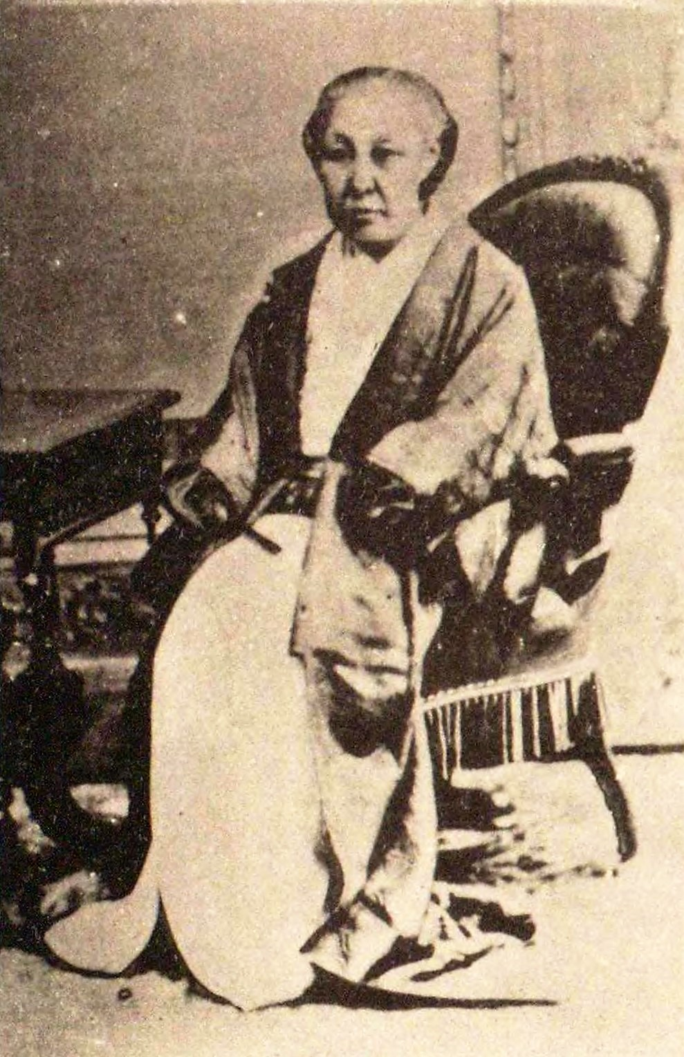 The photograph of Ichijo Junko.